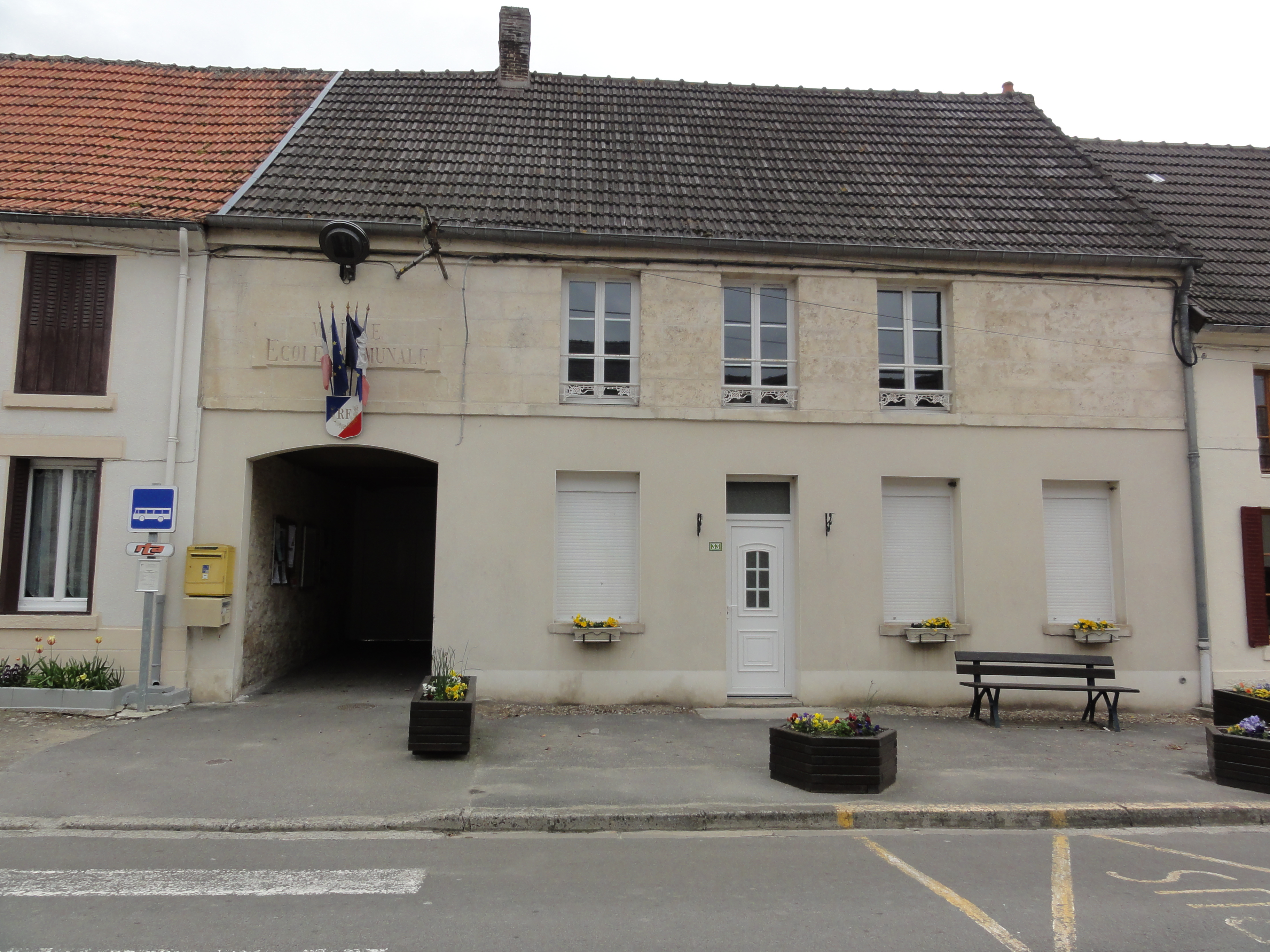 Parfondru (Aisne) mairie-école